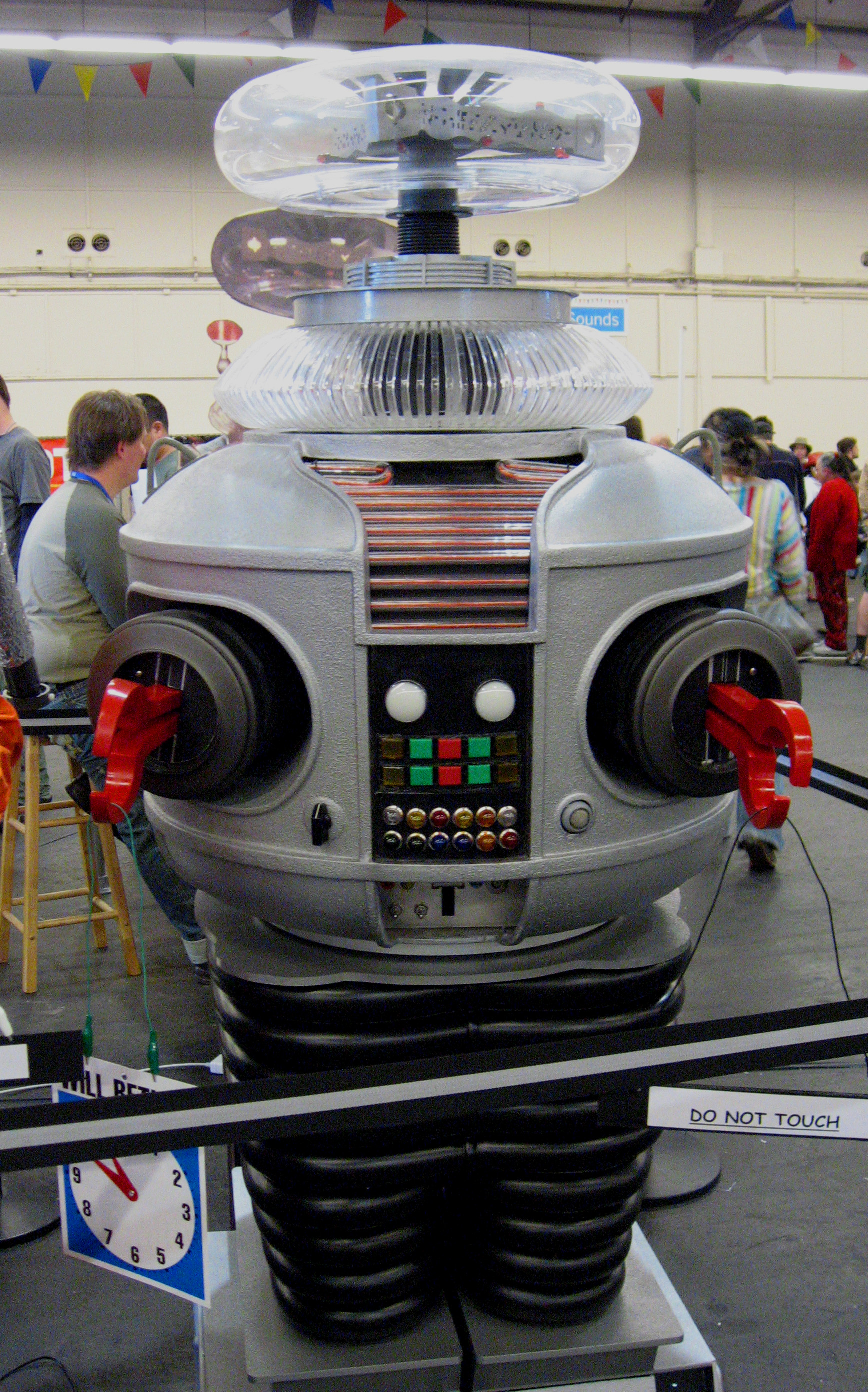 Replica of Robot B-9 from the tv series Lost in Space displayed at the Maker Faire. Original description I'm guessing Robbie was in "hibernation mode,%u201D because he put out a sign indicating that he would be back at "10:50." Or is he waiting for a reboot. Cosmic...this one is for you.